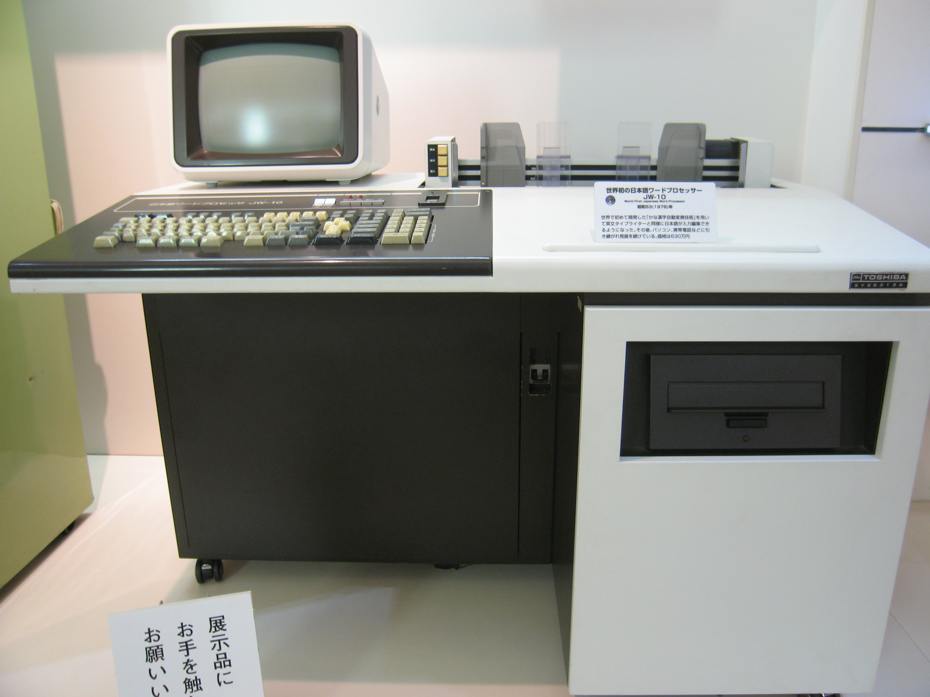 "JW-10"(World First Japanese Word processor 1978) at Toshiba Science Museum, Kawasaki, Japan